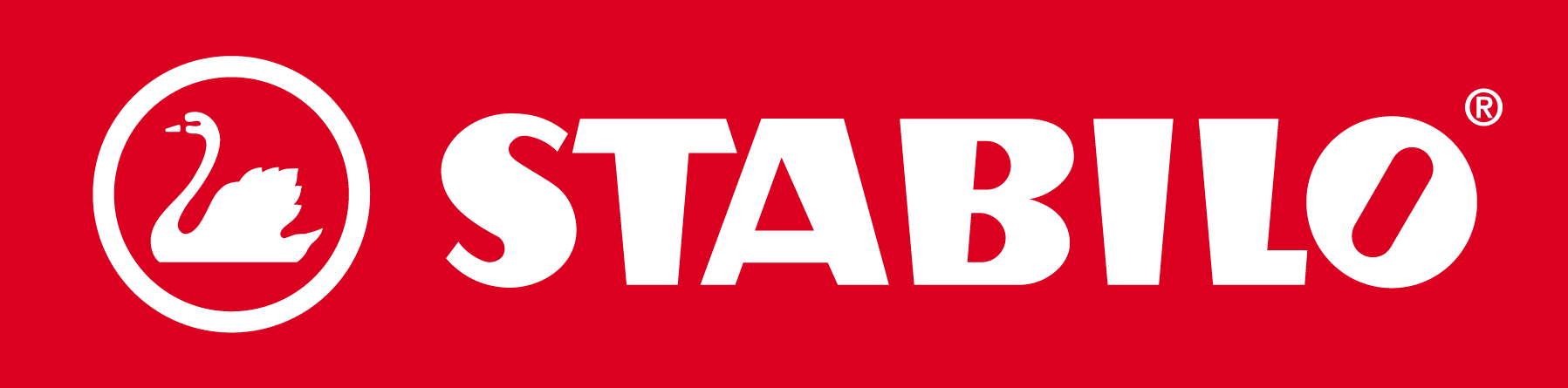 STABILO's Logo